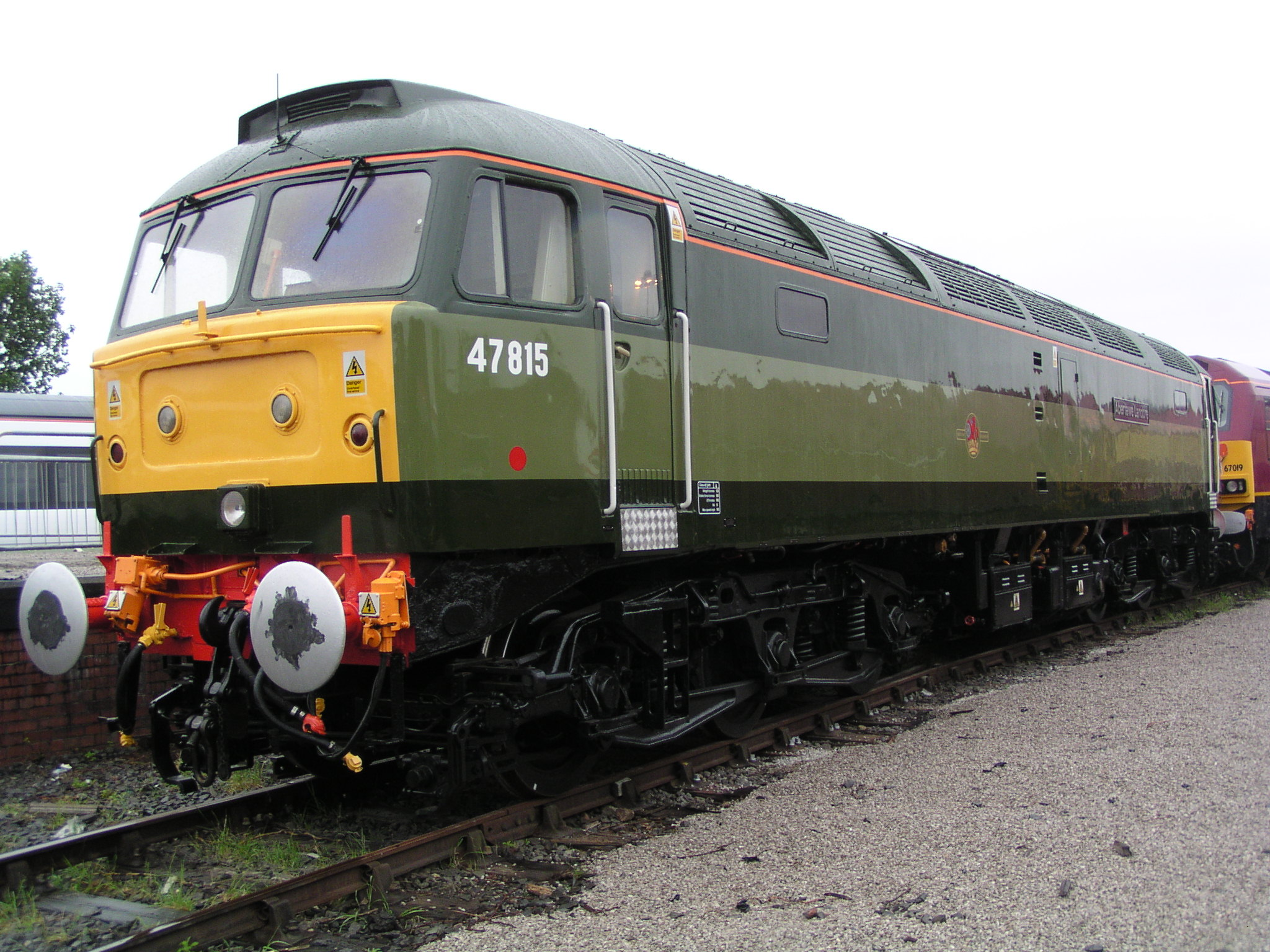 BR Class 47, no. 47815 'Abertawe Landore' at York Railfest on 3rd June 2004